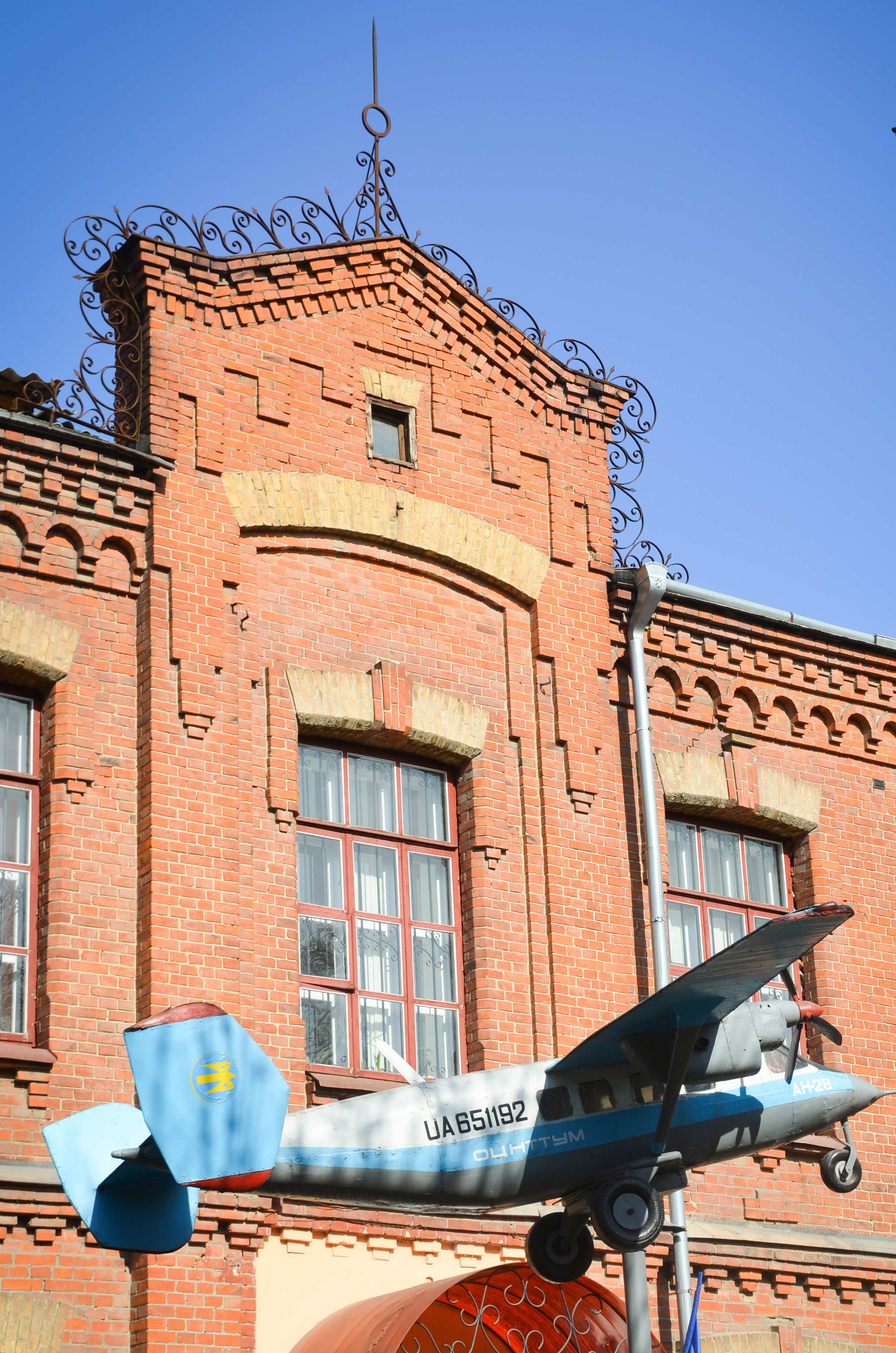 10 березня 2015 року.Модель літака перед будинком центру науково-технічної творчості молоді.